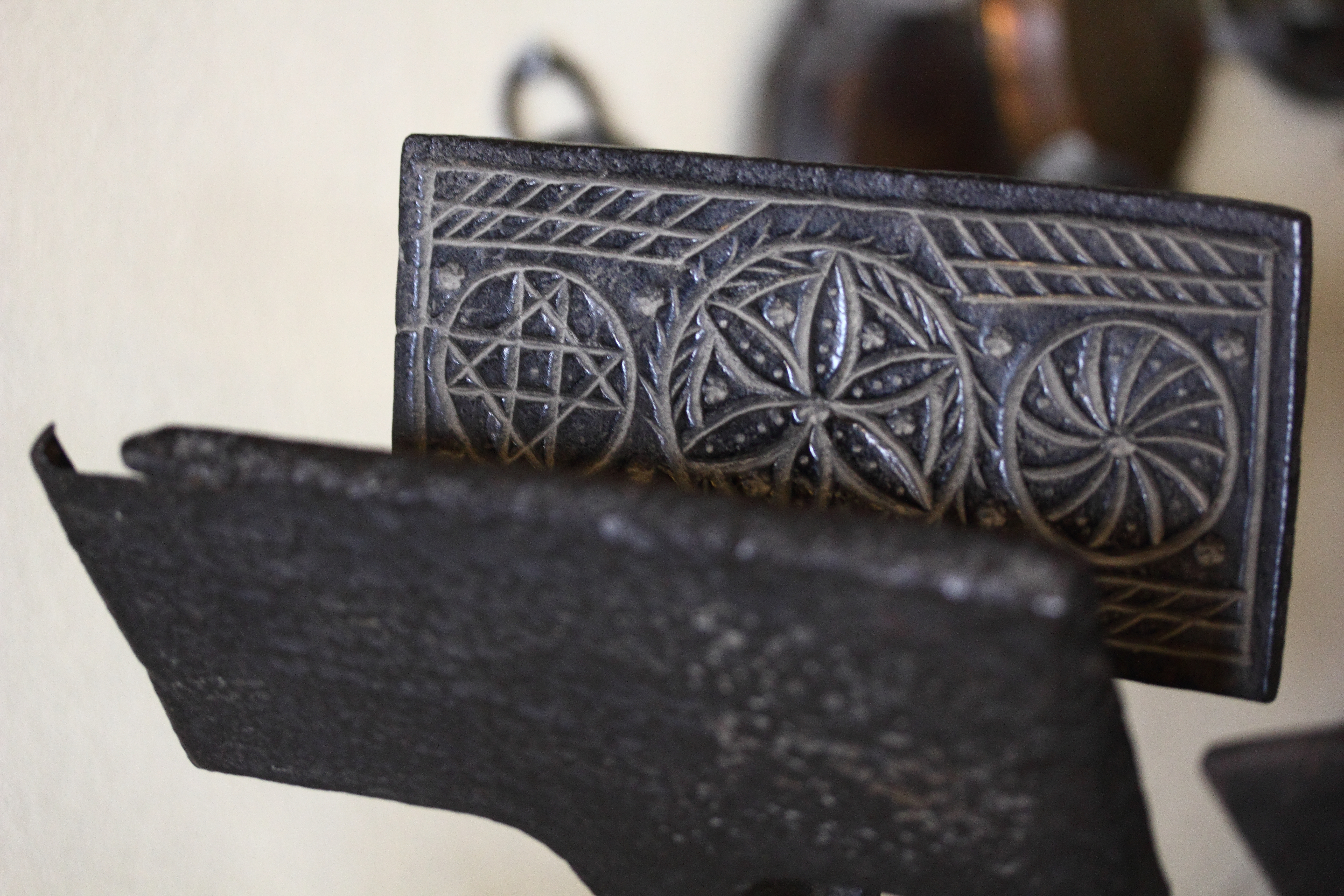 Waffle iron, Musée Lorrain (Popular Arts and Traditions Museum)